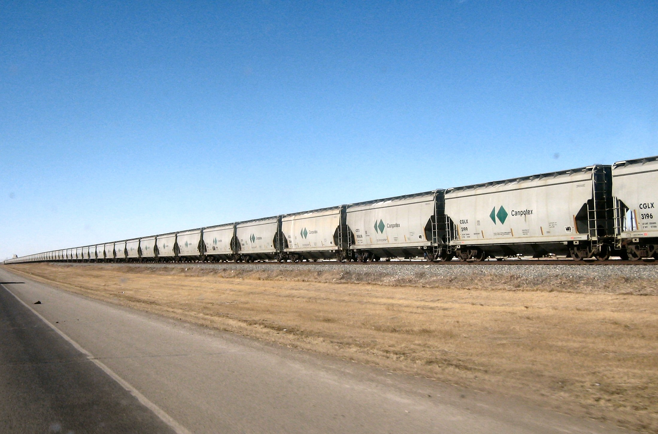 Passing the train near Lethbridge Alberta.